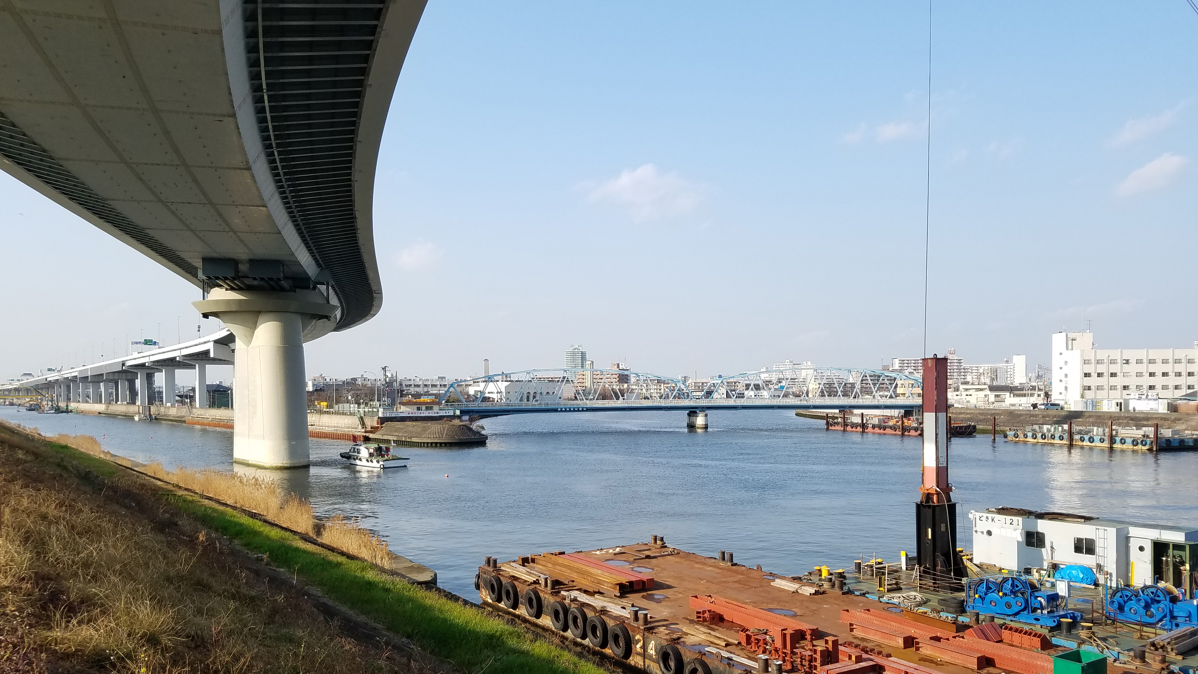 The junction of the Ayase river (left side) and the Nakagawa river(right side)